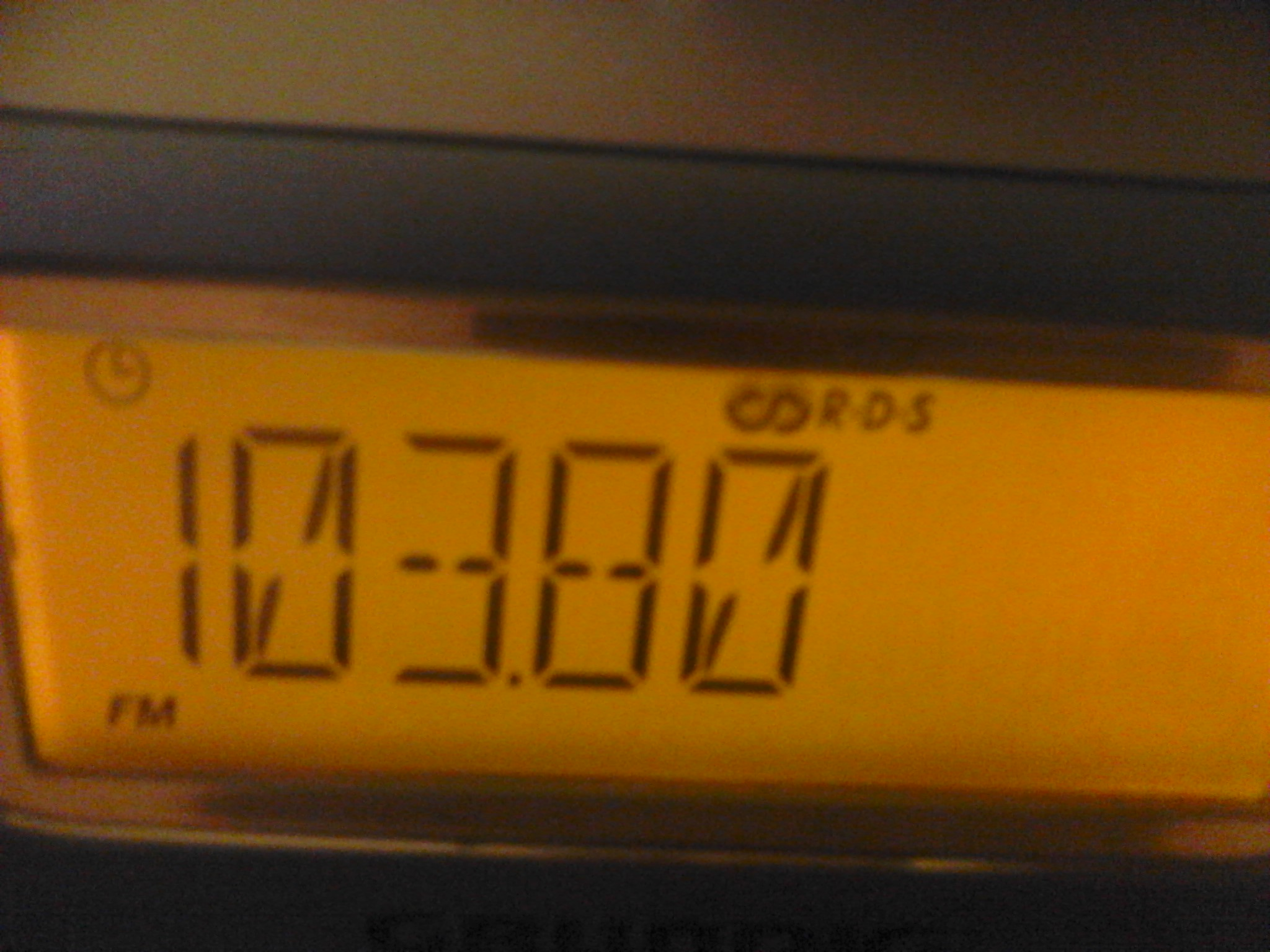 Antena 1 (Portugal) radio station tuned on FM 103.8 MHz without Radio Data System, using a Grundig portable radio.